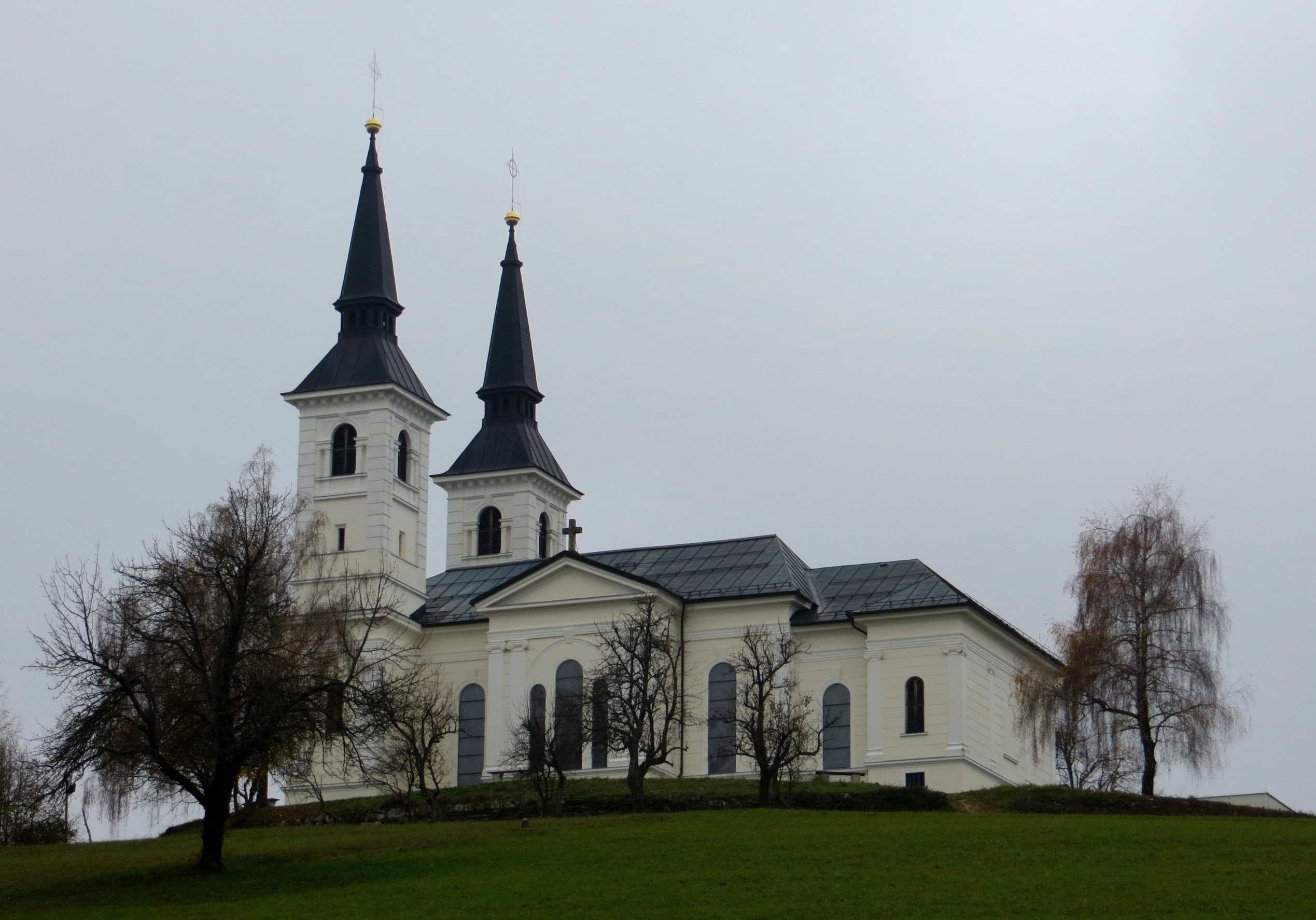 Assumption Church in the hamlet of Zaplaz, Čatež, Municipality of Trebnje, Slovenia, designed by Viljem Treo (1845–1926)